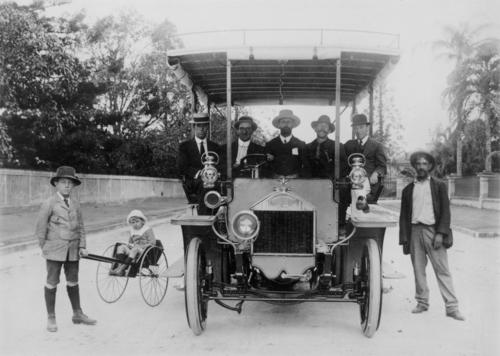 Location: Brisbane, Australia Date: ca. 1912 View this image at the State Library of Queensland: Information about State Library of Queensland’s collection